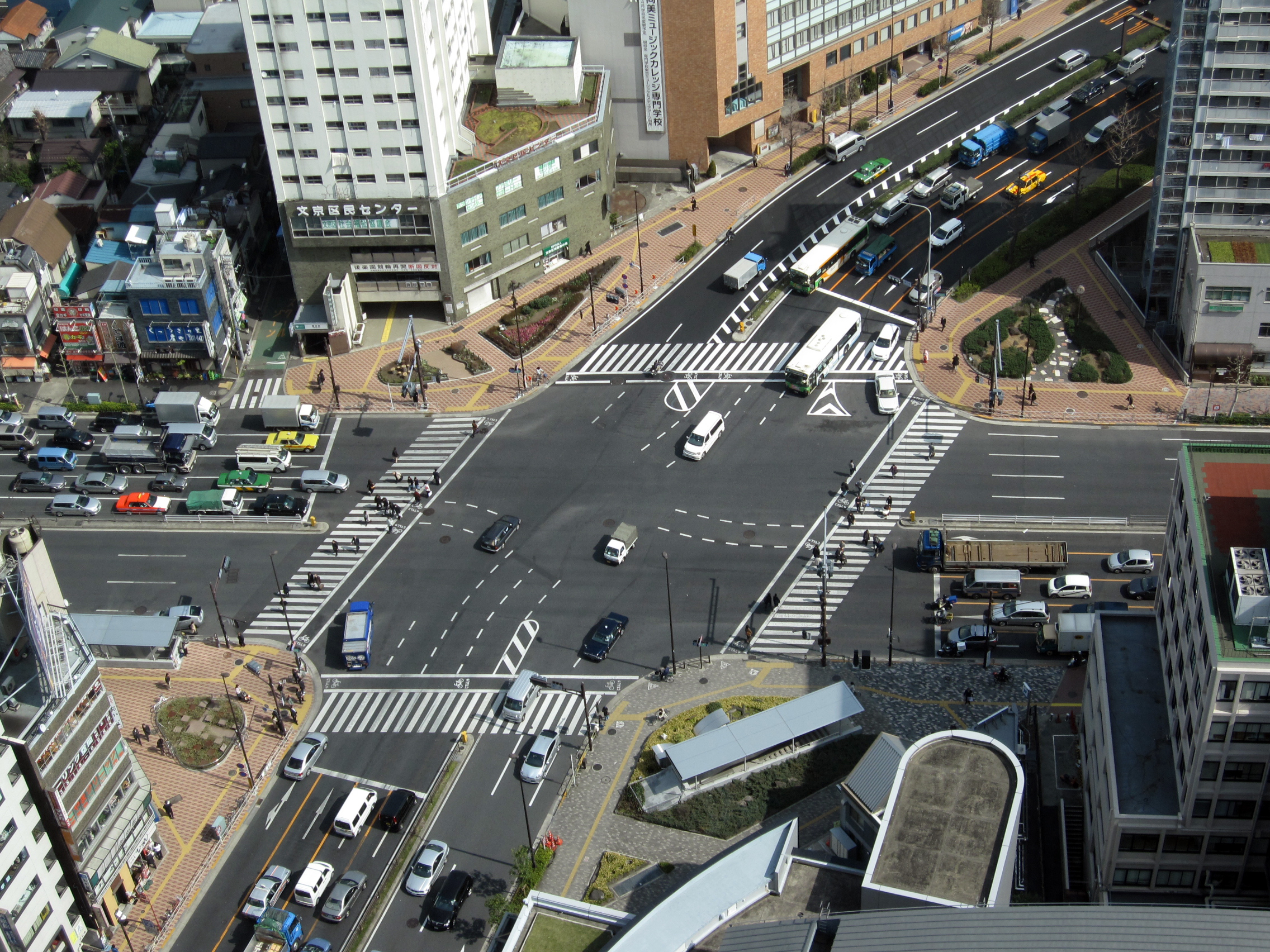 The Kasuga-chō Crossing in Kasuga, Bunkyō, Tokyo.